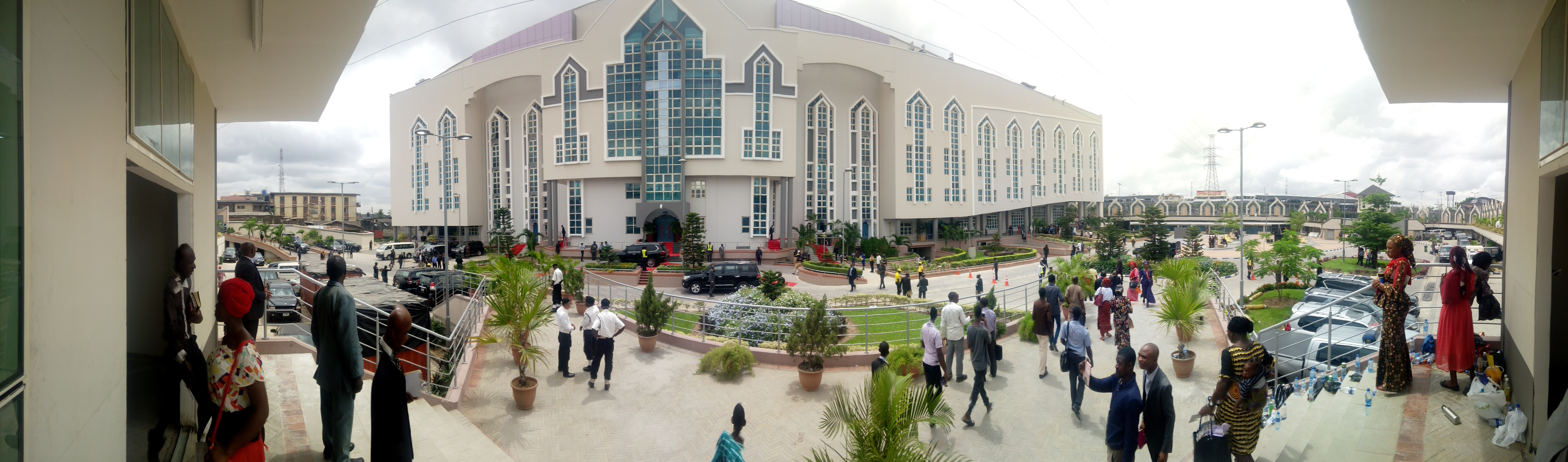 Deeper Life Christian Church Auditorium, Gbagada, Lagos